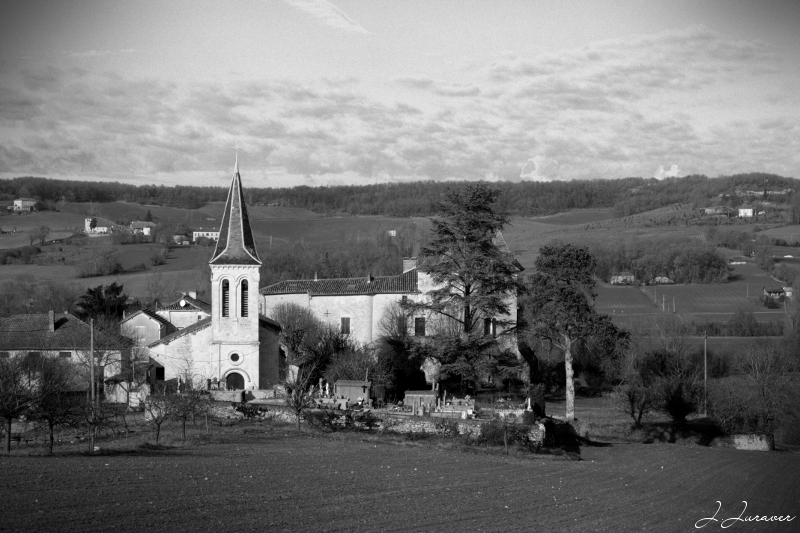 Saint-Laurent-Lolmie (Lot, 46800, France) : the Lolmie's side. Church, cemetery, and castle.